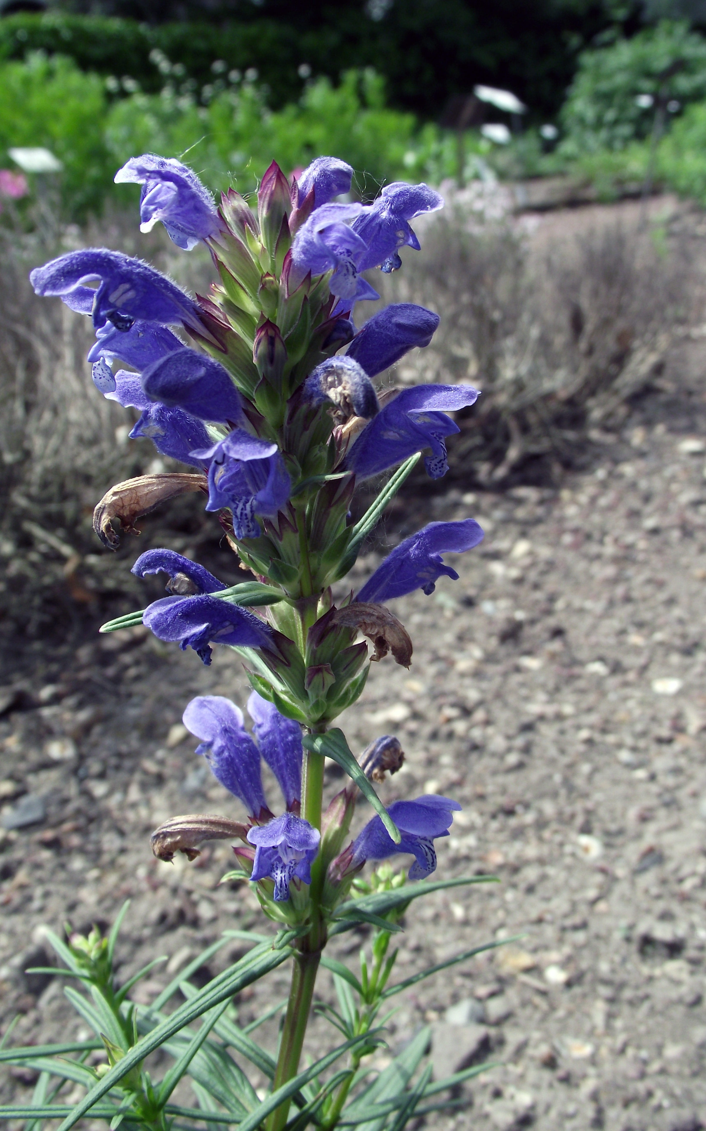 Dracocephalum ruyschiana, Flower, Inflorescence